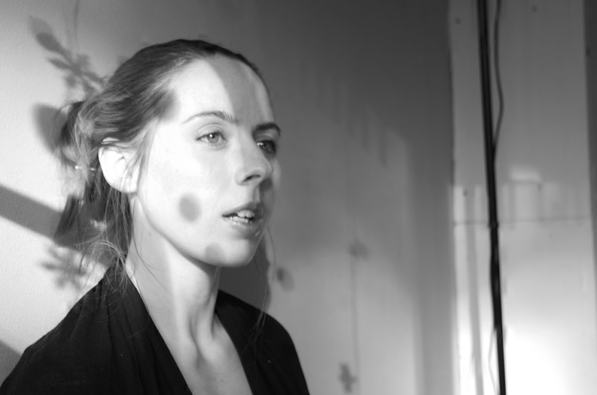 Copyrighted to Helen Calcutt '15